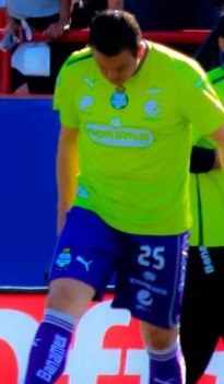 Santos Laguna player Miguel Becerra